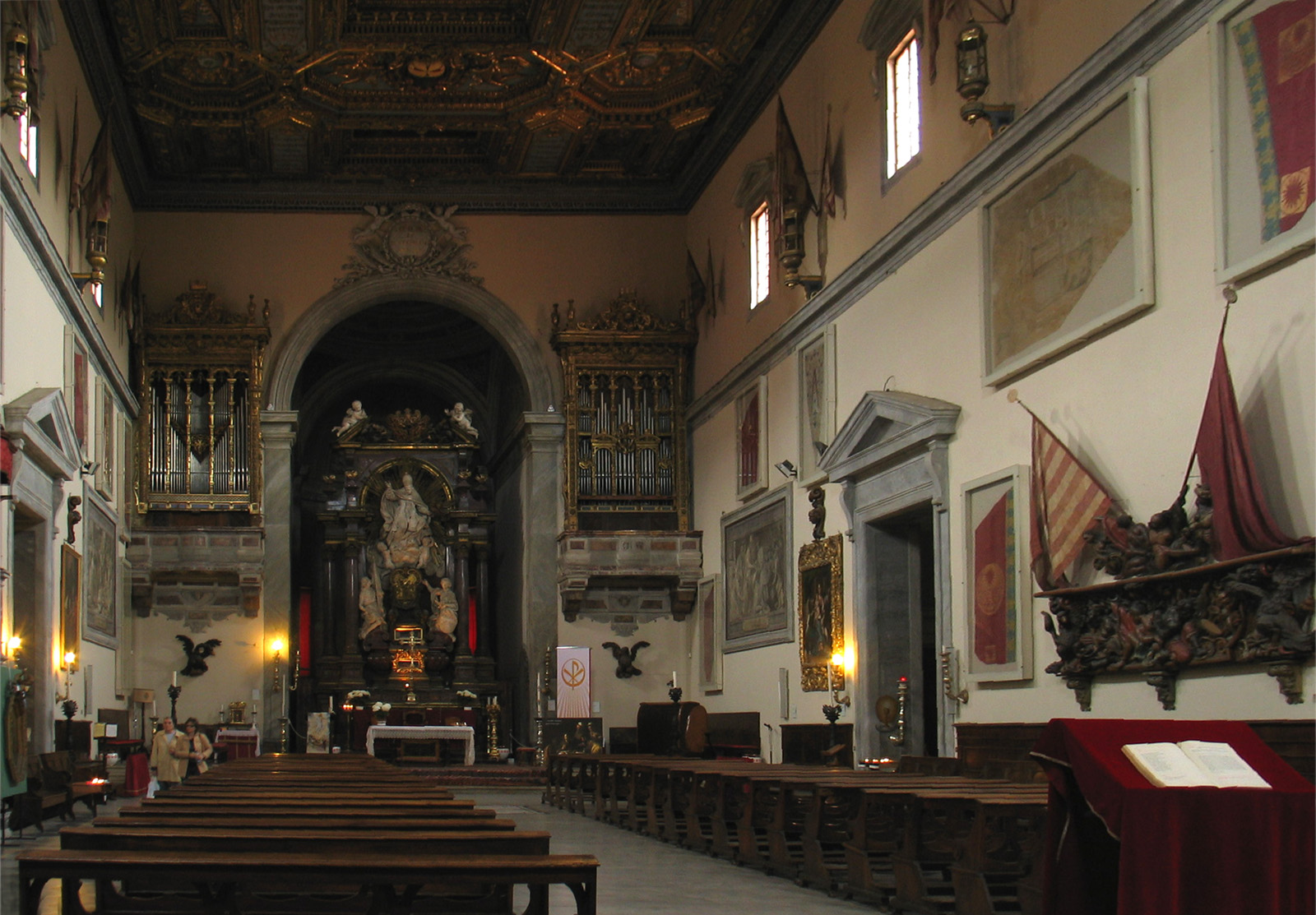 Church Santo Stefano dei Cavalieri, located in the town of Pisa/Italy. The organ on the left side was build in 1733 by Azzolino Bernardino della Ciaja, the organ on the right side was build by Onofrio Zeffirini in 1571.